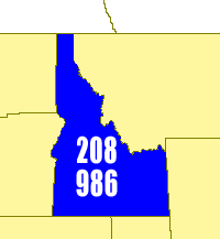 Map showing area code for the state of Idaho in color.